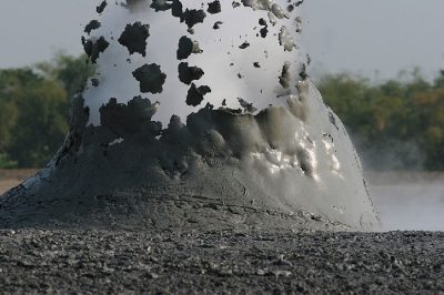 Bledug Kuwu mud volcano, Central Java, Indonesia